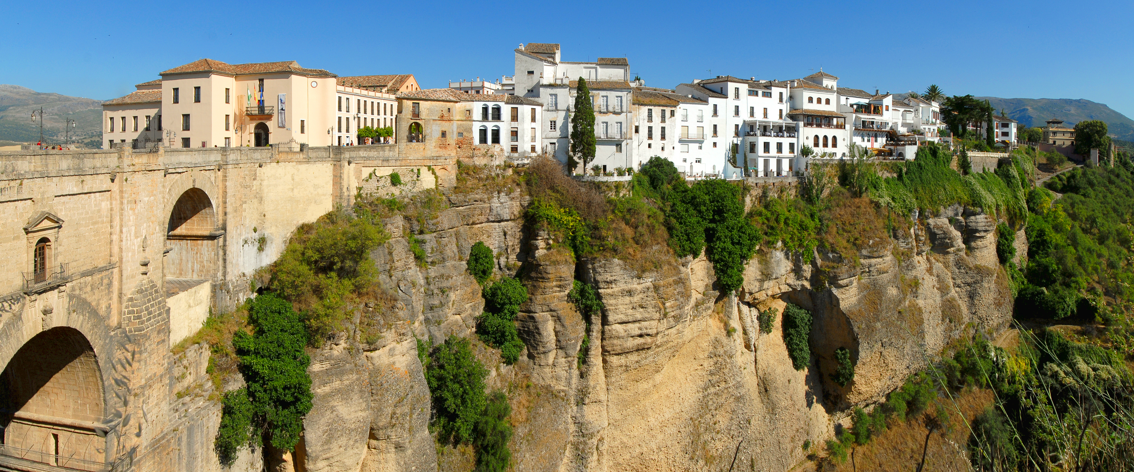 Panorama of Ronda from Puente Nuevo de Ronda